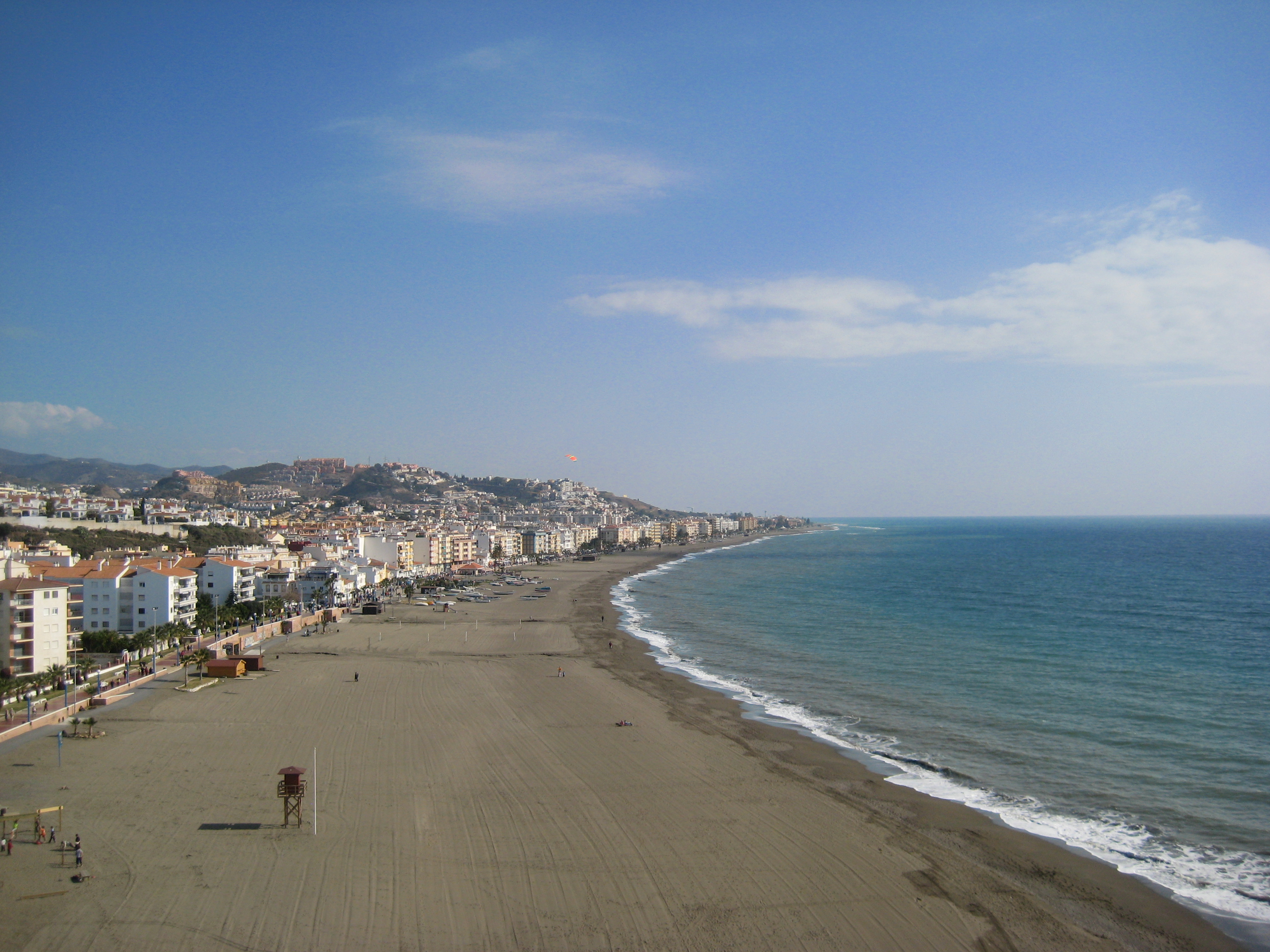 View of Rincón de la Victoria, Málaga, Spain